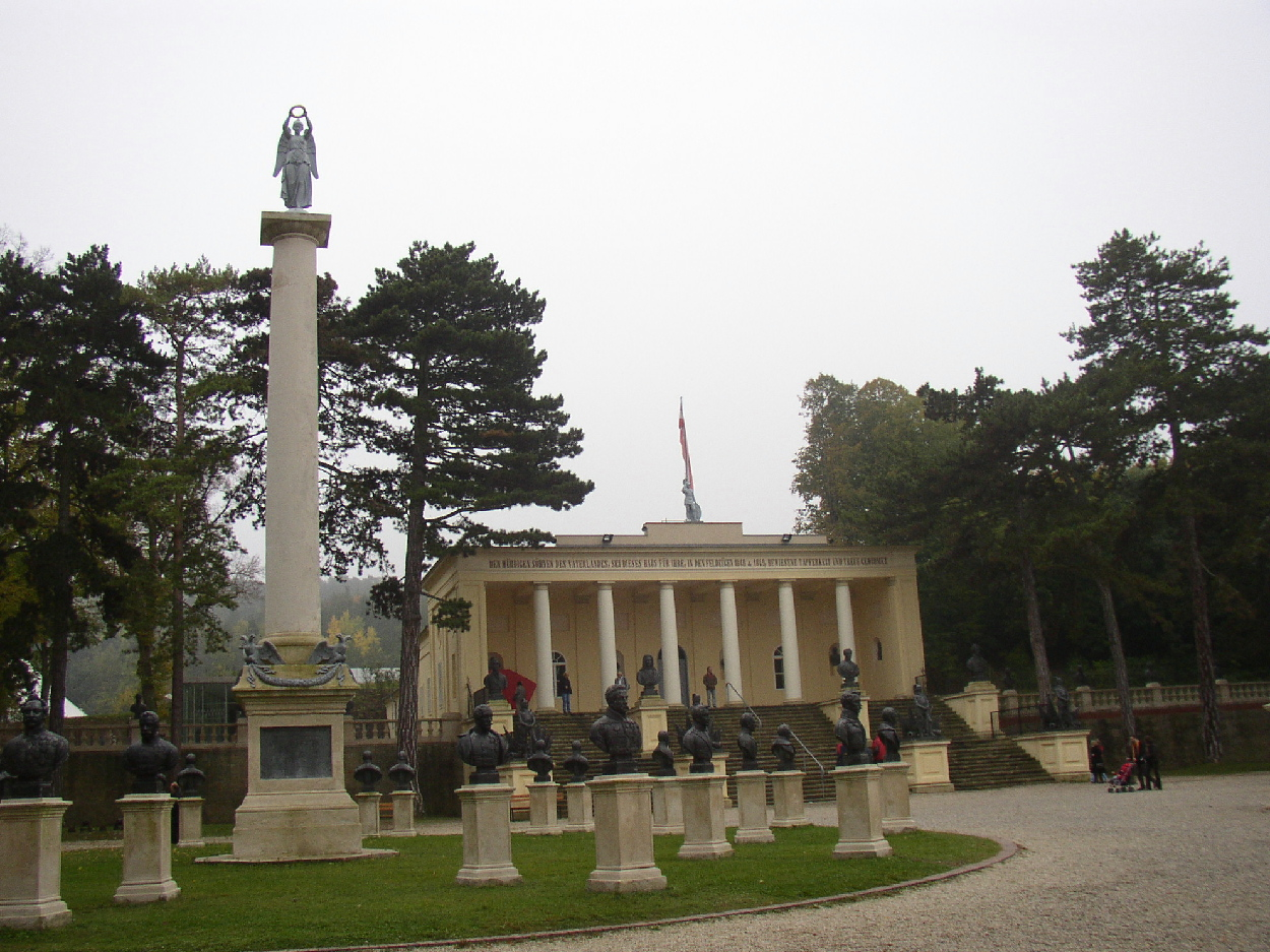 Memorial Site Heldenberg